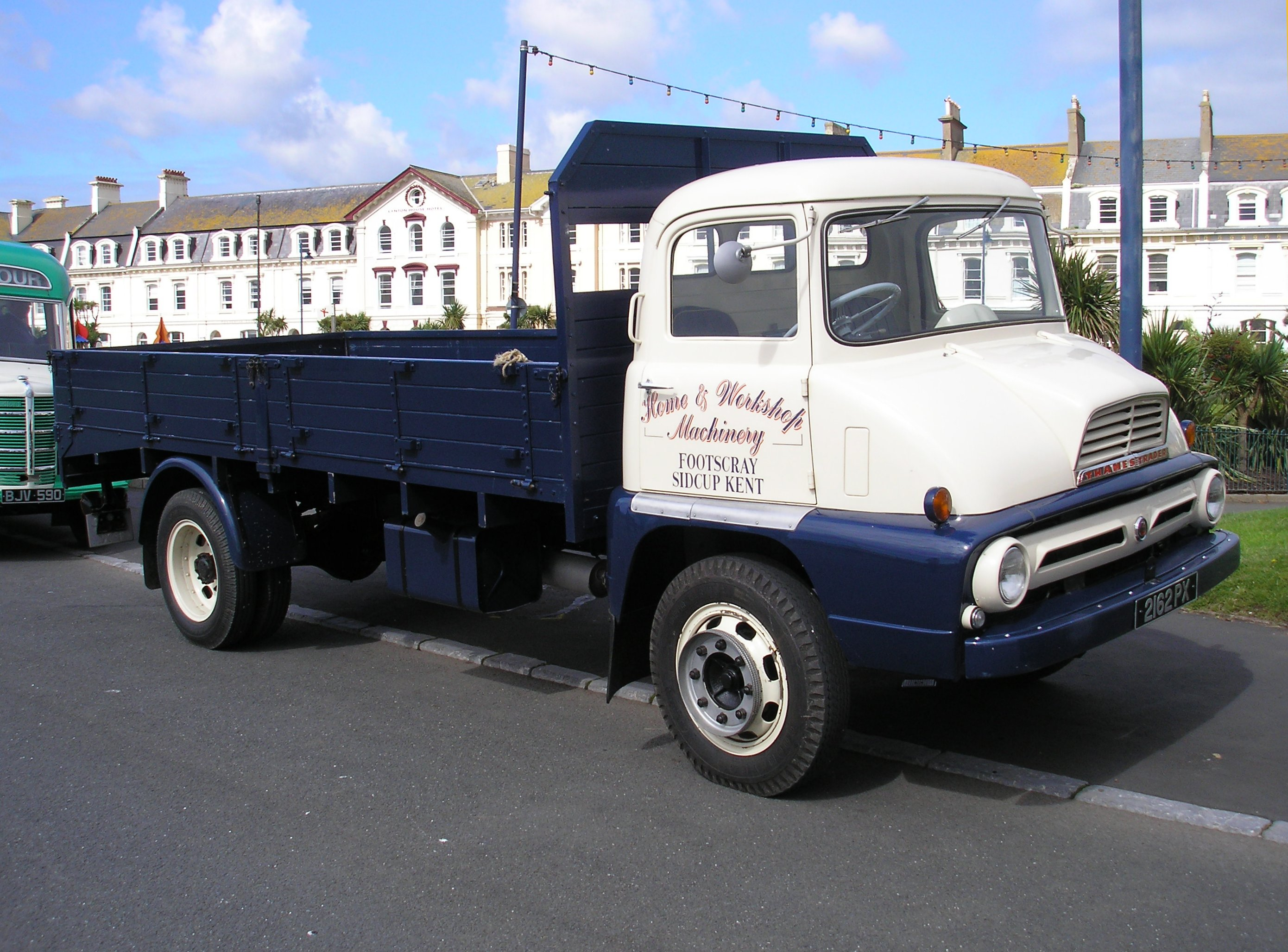 Thames Trader. Commercial vehicle display in Teignmouth Devon on 15th July 2012 Camera: Olympus FE-120 6.0 Digital